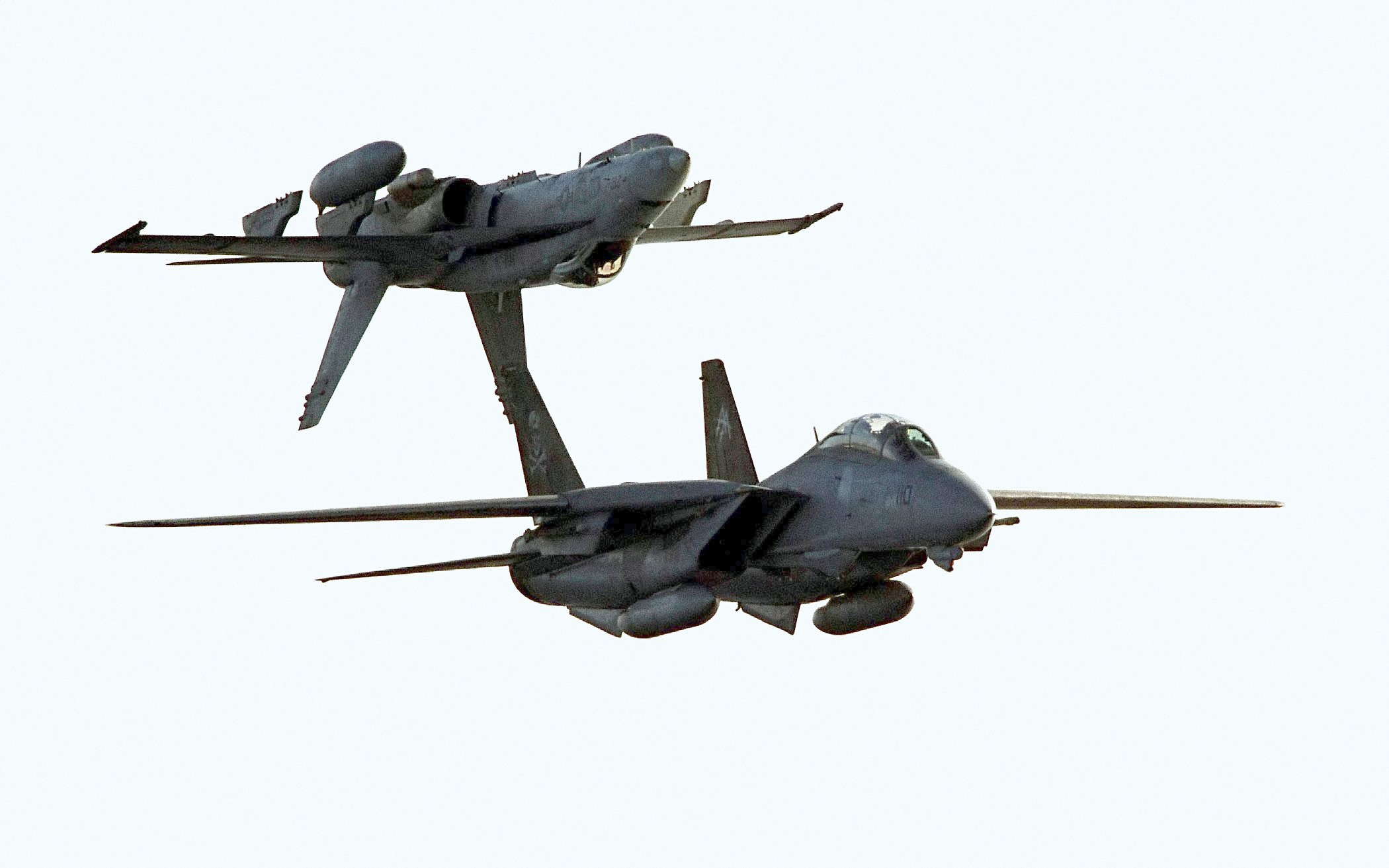 An F-14B TOMCAT, from the Fighter Squadron VF-103) "Jolly Rogers" and an F/A-18C(N) HORNET, from the Strike Fighter Squadron VFA-34 "Blue Blasters," demonstrate a high-speed, inverted pass.